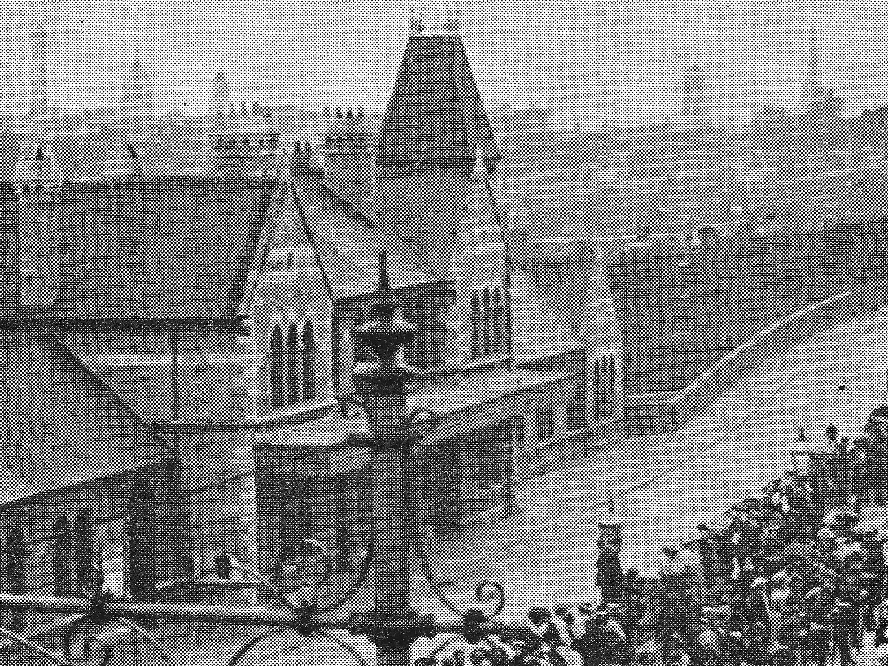 The London and South Western Railway terminus at Devonport.